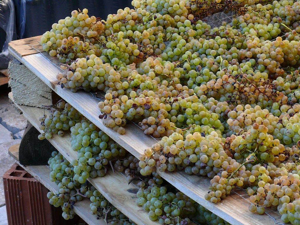 Grapes, left to dry for a passito wine, at Marco Fon Vinogradi (SLO).